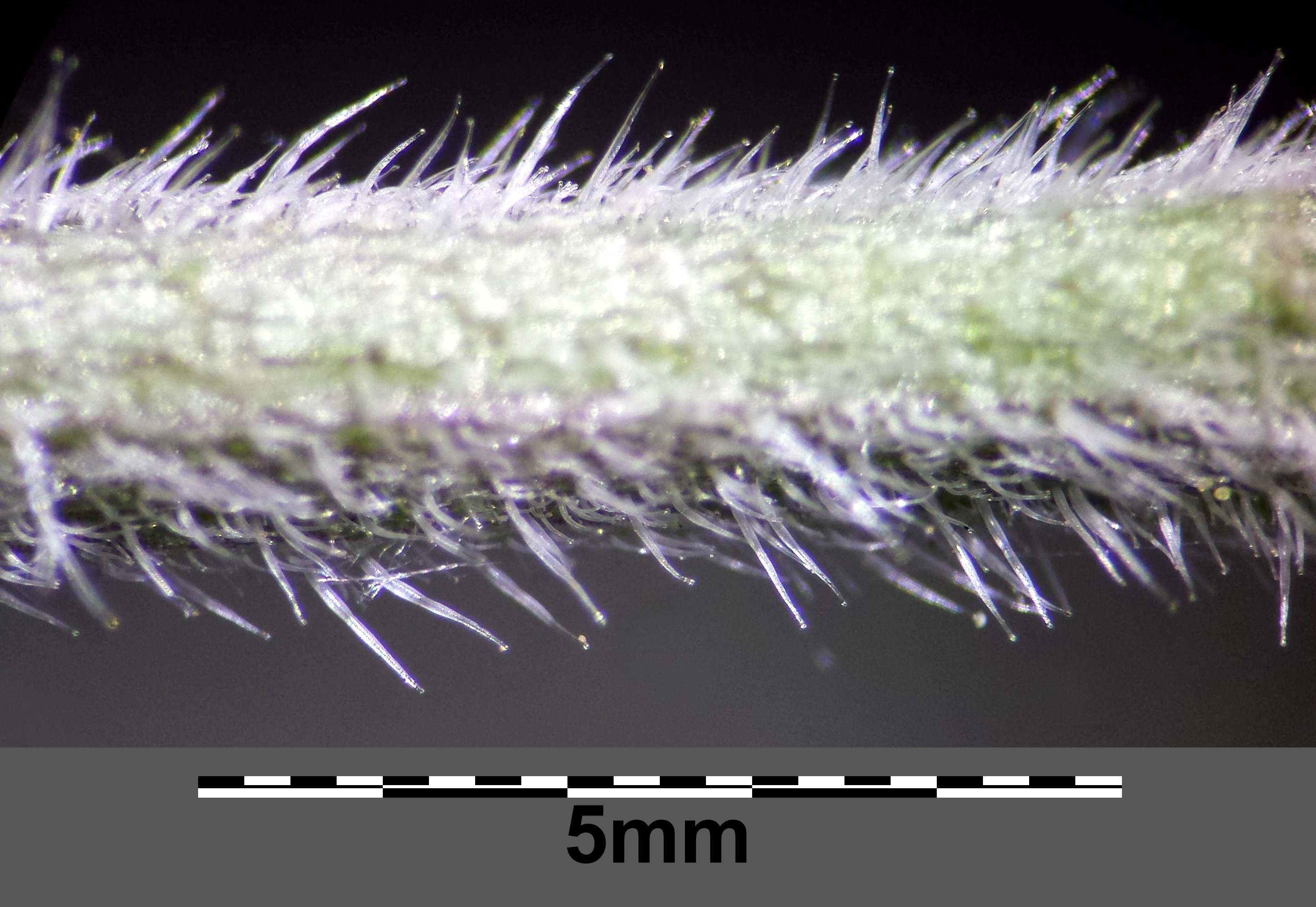 Stipe with distant (gland) hairs Taxonym: Solanum nigrum subsp. schultesii ss Fischer et al. EfÖLS 2008 ISBN 978-3-85474-187-9 Location: to the south of Schleinbach, district Mistelbach, Lower Austria - ca. 275 m a.s.l. Habitat: border of a field